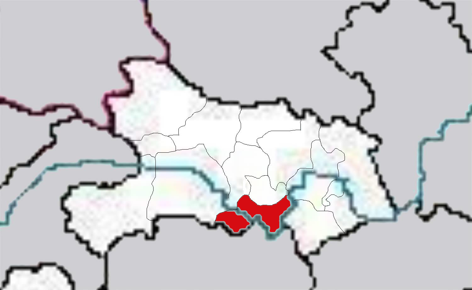 Maps of Hubei Province of China